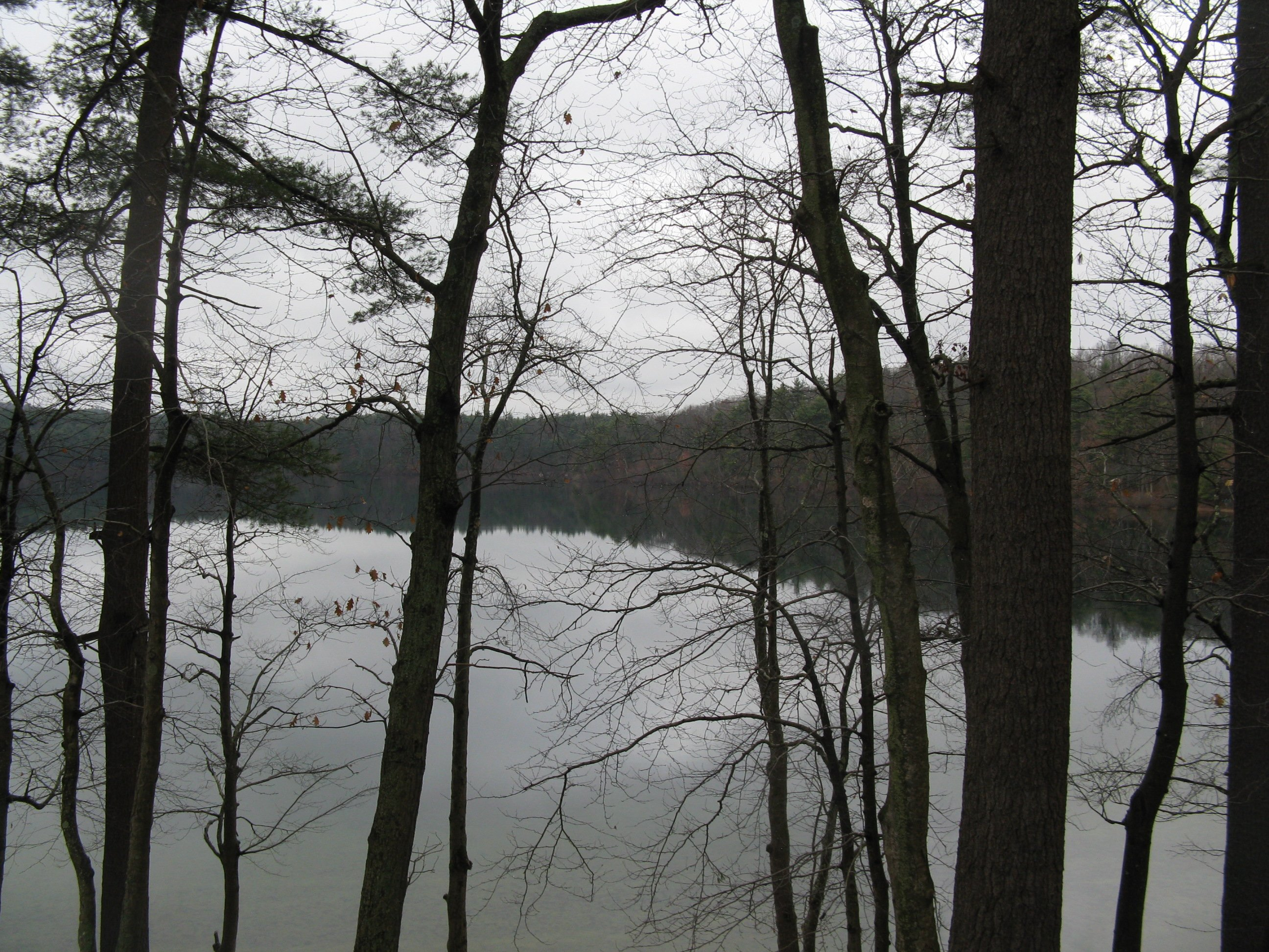 Walden Pond in November, Concord Massachusetts, November 2009